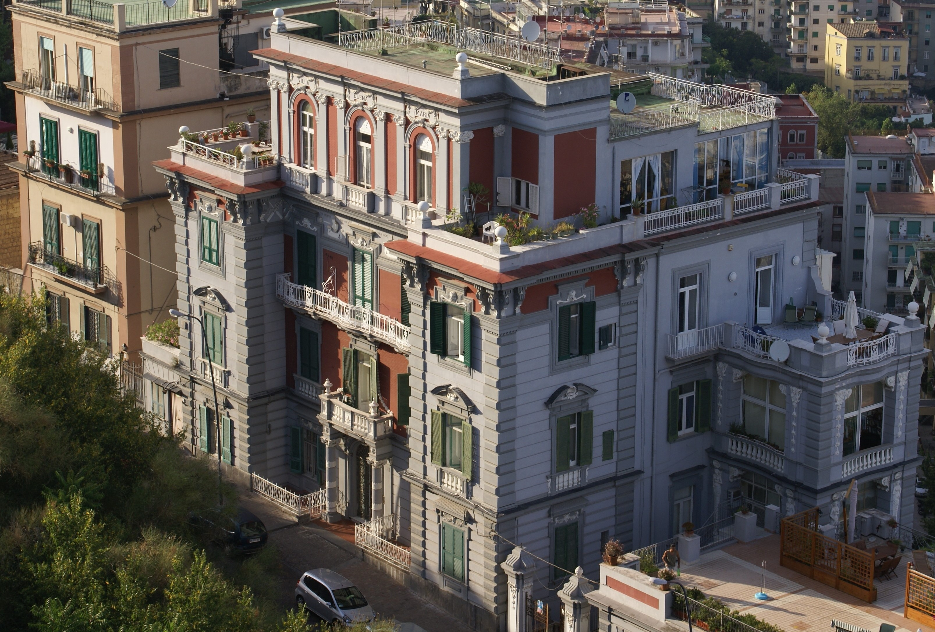 Villino Elena e Maria,Napoli